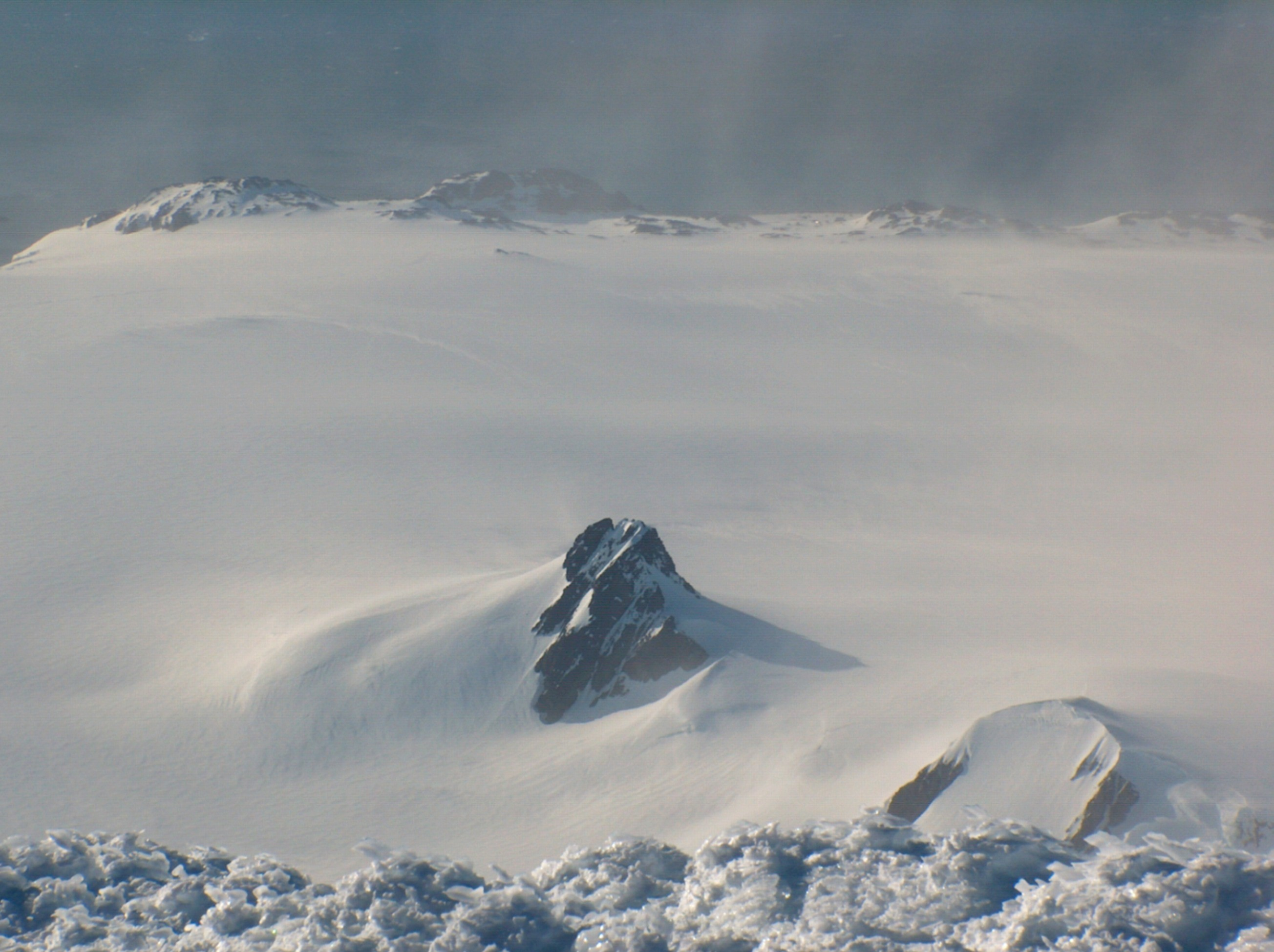 source=Lyubomir Ivanov